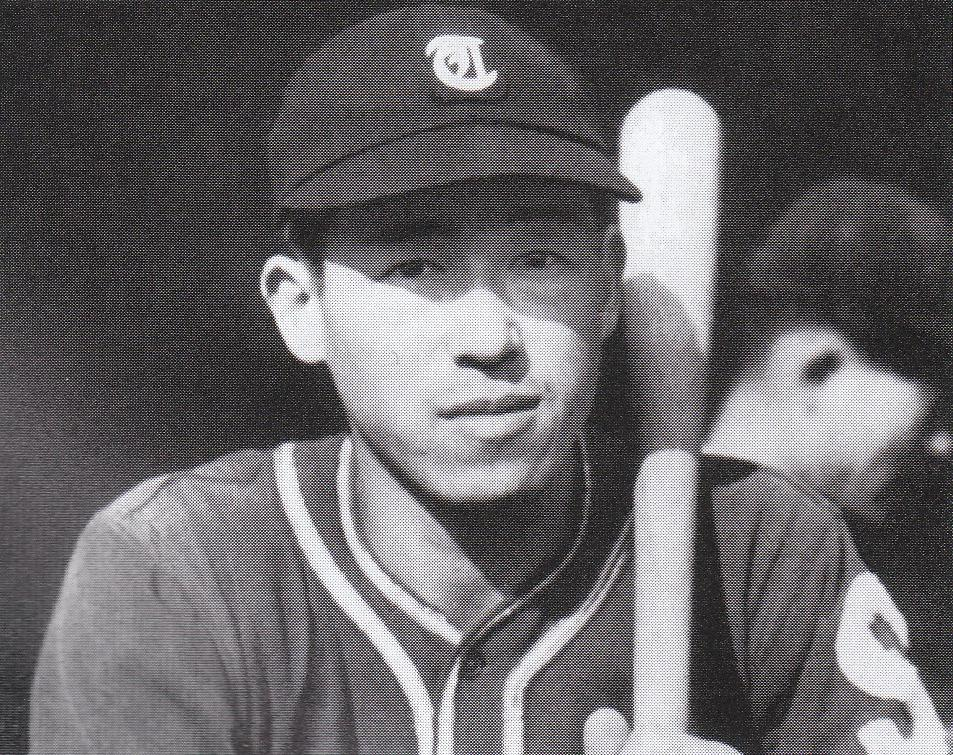 A professional baseball player from japan, Hiroshi Ohshita.